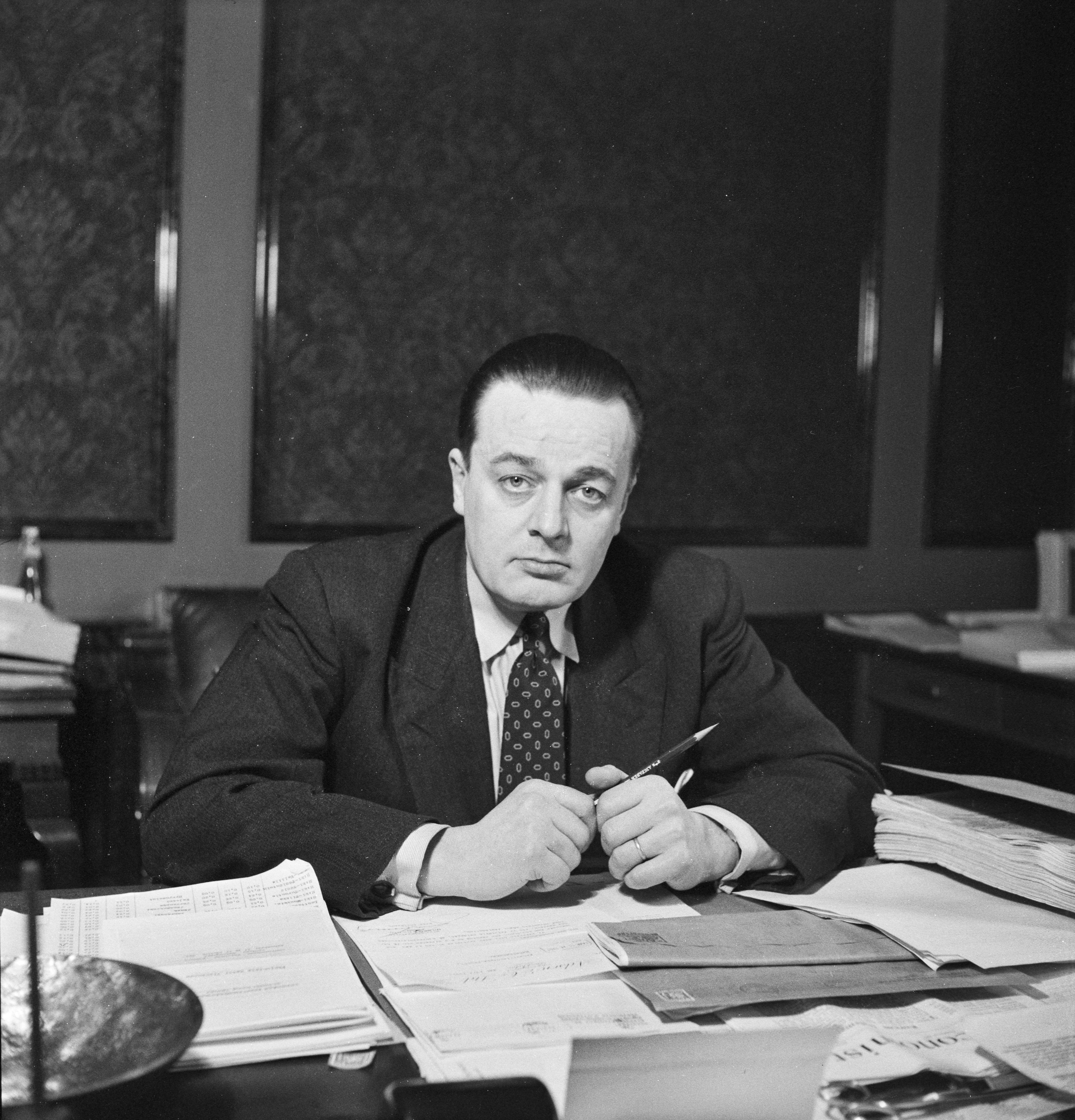 Photograph of the Finnish bank director Matti Virkkunen (1908–1980).